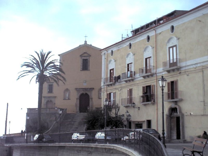 Amantea (Cosenza), Calabria, Italy